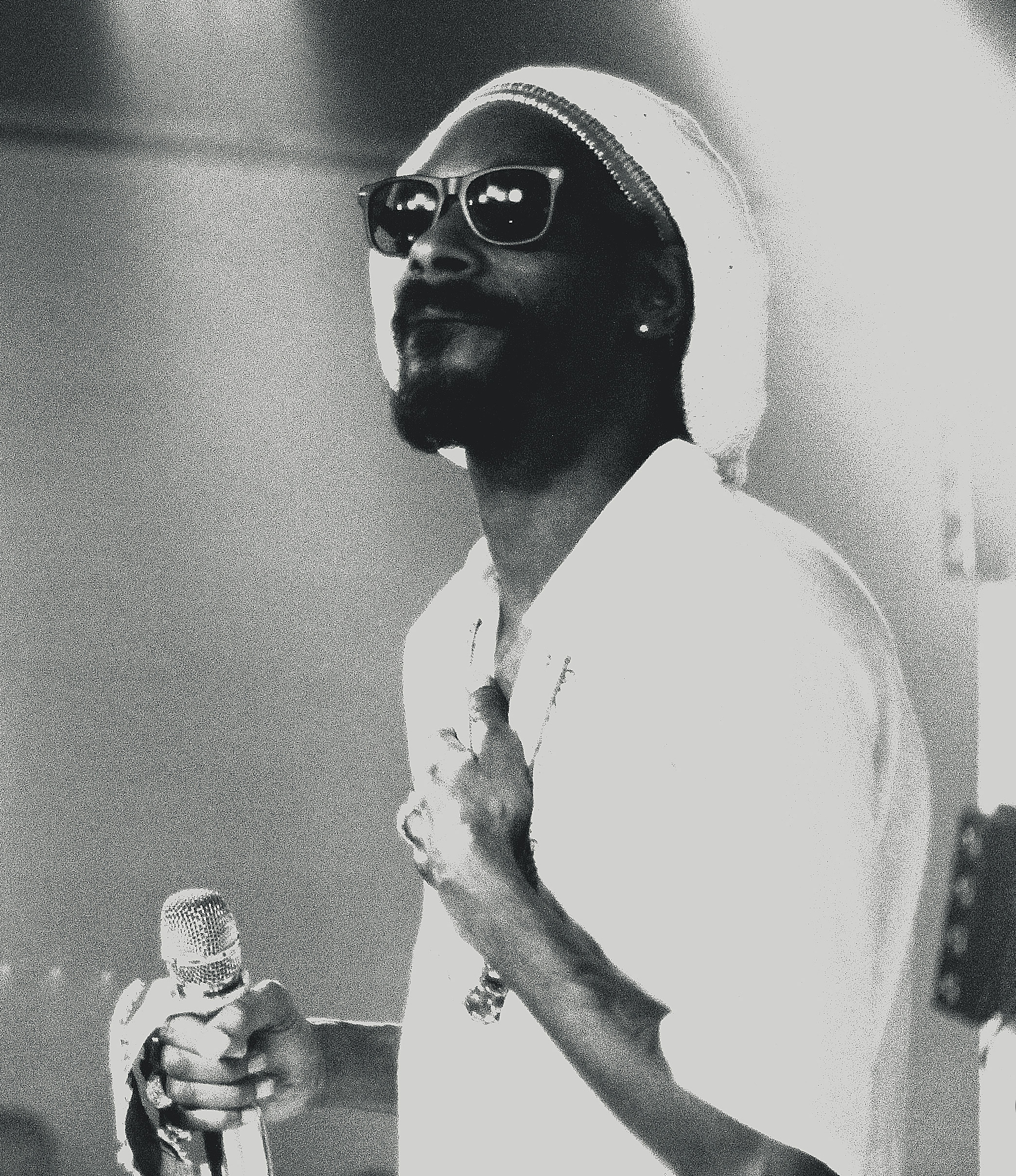 Snoop Dogg Takes the Stage at The Hoxton in Toronto, Ontario on August 2012.